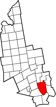 Map of the towns in Franklin County, Maine with Farmington highlighted